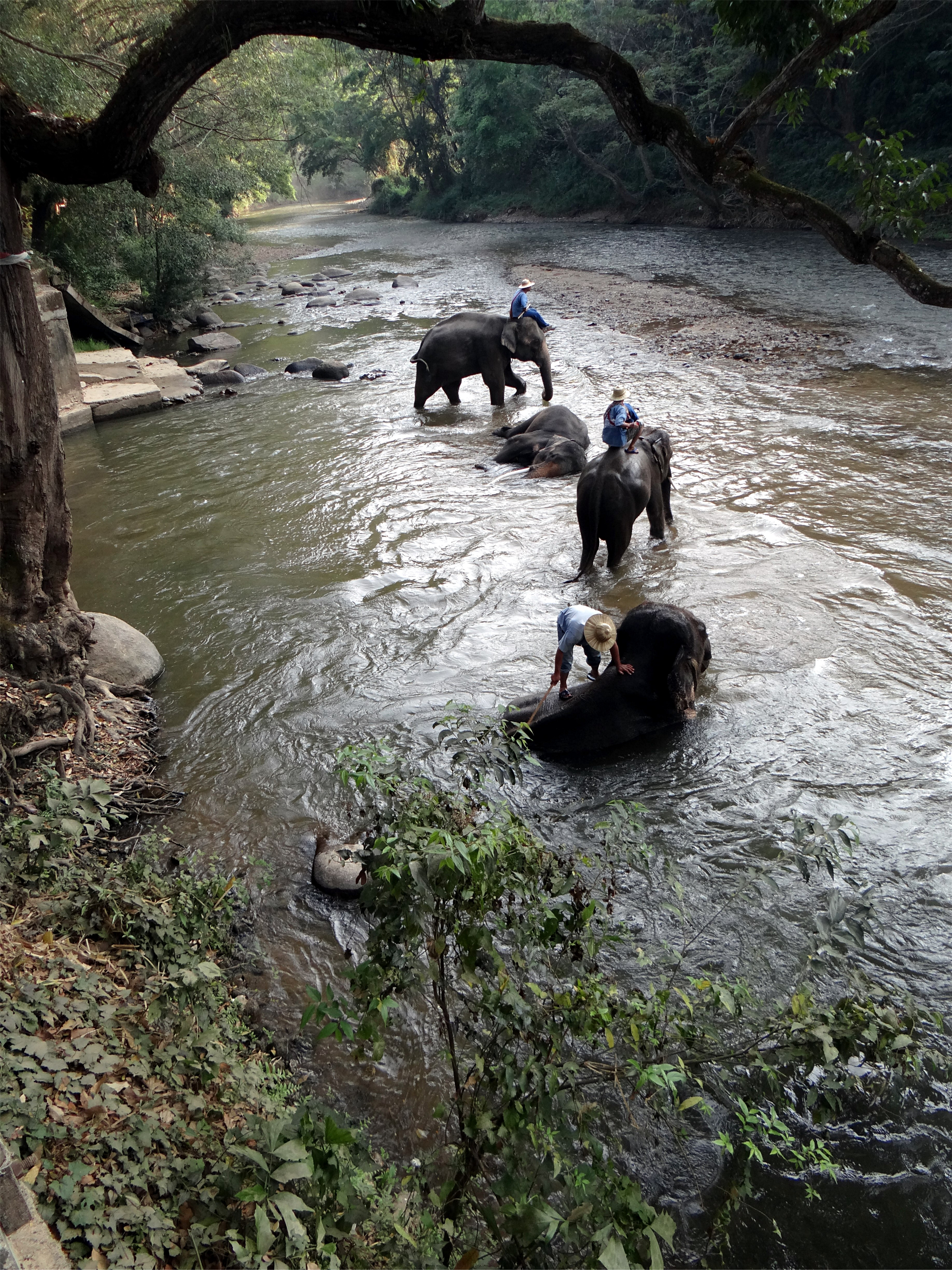 Grooming elephants in the Mae Taeng River, Chiang Mai Province, Thailand.